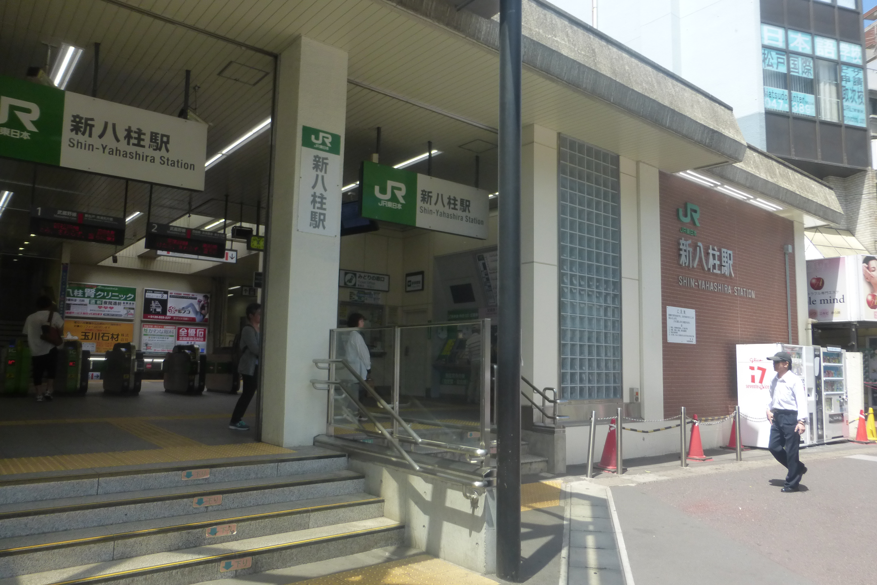 Shin-Yahashira Station (新八柱駅)